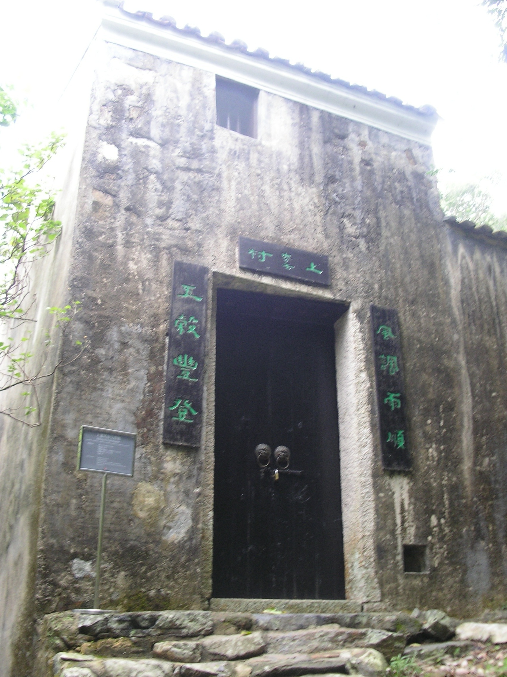 This photo taken in 2006 outside the Sheung Yiu Folk Museum door in Hong Kong.這是上窰博物館的正門，是本人於2006年新年所拍。